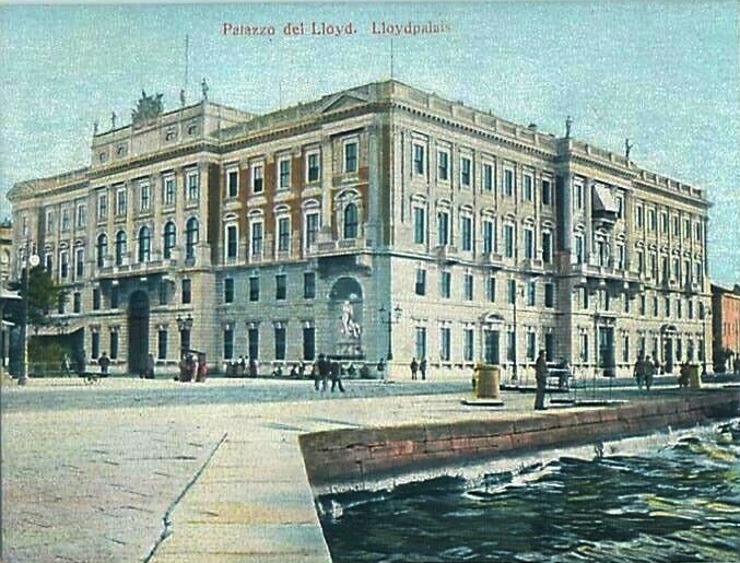 The Palazzo del Lloyd, Lloydpalais, headquarters of Österreichischer Lloyd at Trieste in the early 1900s. Postcard from the early 1900s.